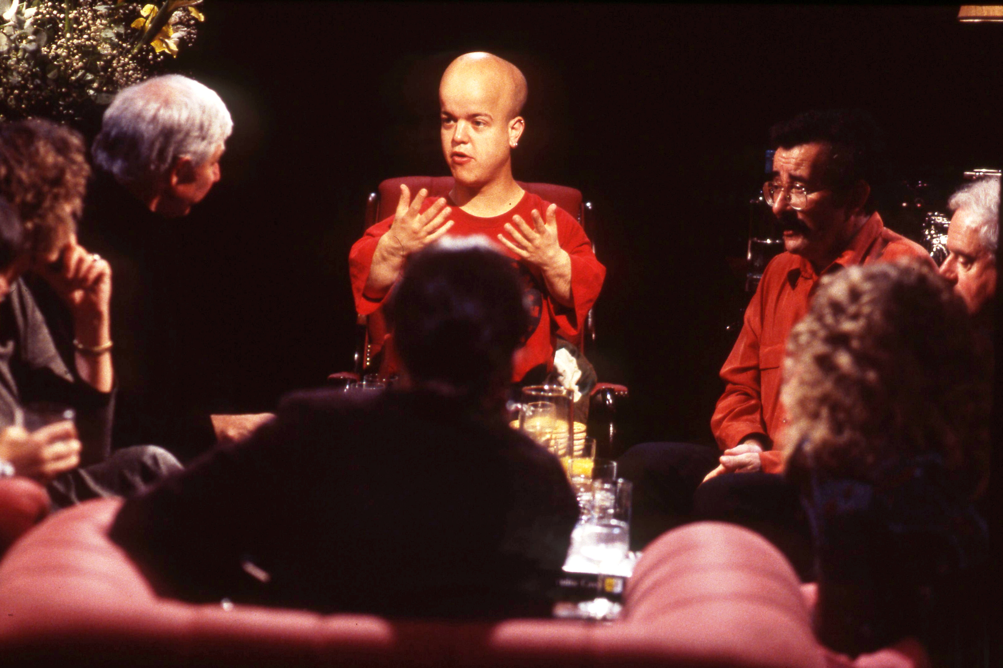 Tom Shakespeare appearing on TV discussion programme After Dark on 30 May 1994